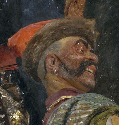 Detail from file:Repin Cossacks.jpg, Cossack No. 1